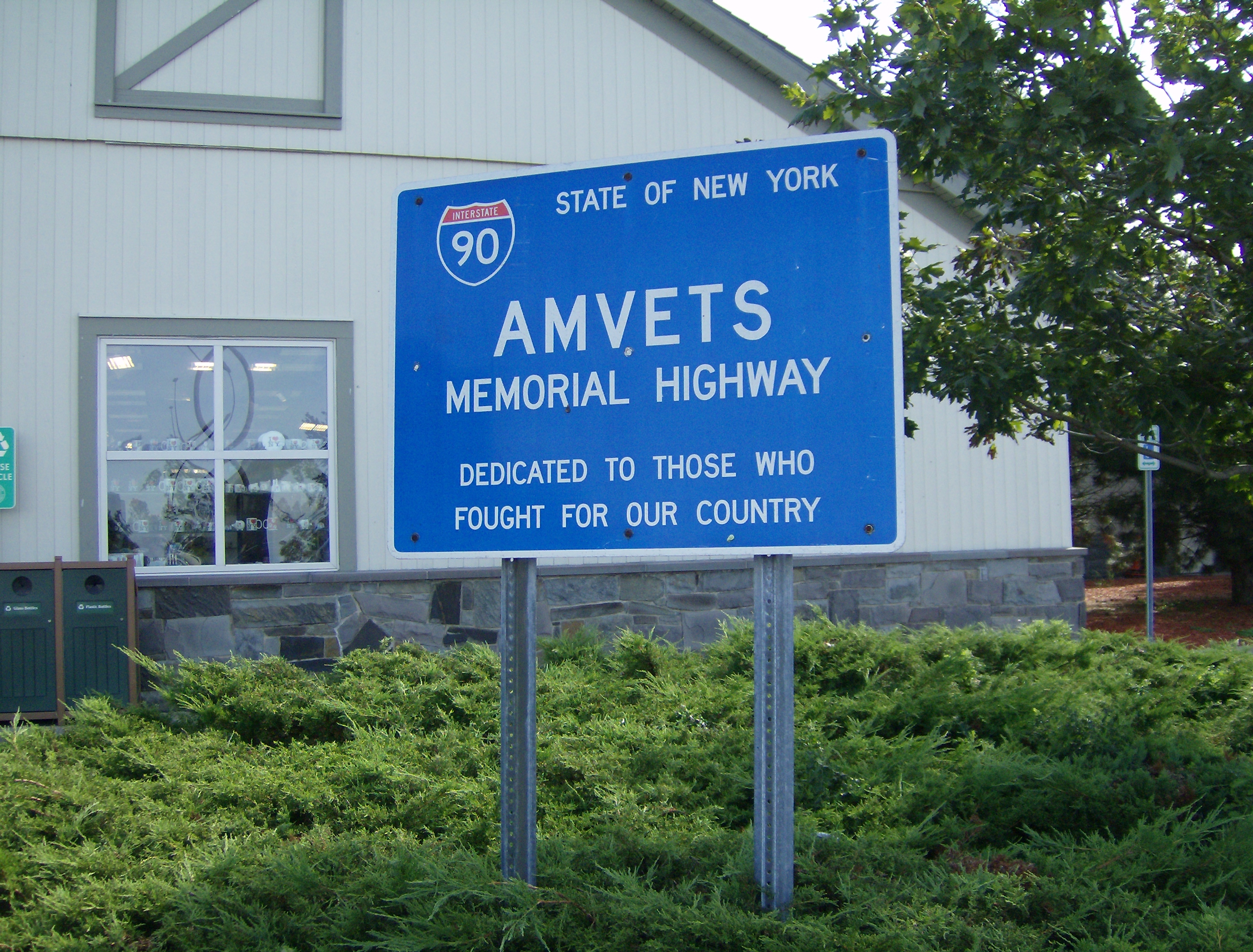 A sign at the New York State Thruway's Port Byron service area dedicating Interstate 90 as the "AMVETS Memorial Highway". The designation applies to the entirety of I-90 in New York, including the portion not part of the Thruway system near Albany.